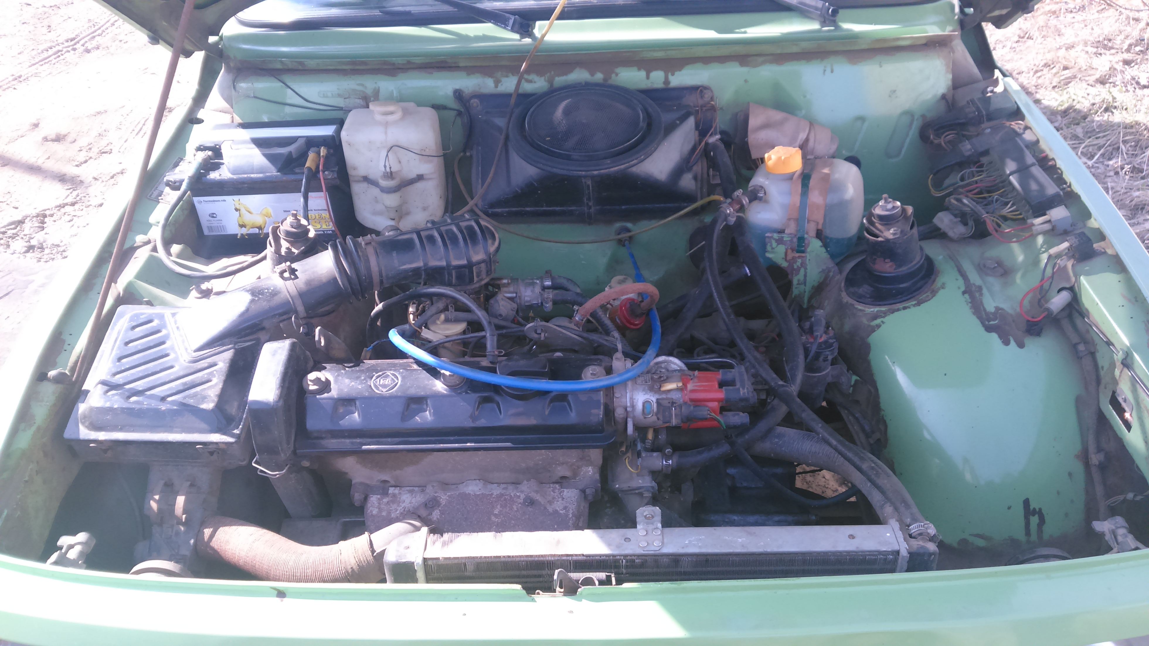 Wartburg 1.3 engine bay photographed in Pavlovo, Russia